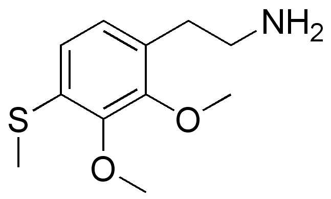 Chemicals tructure of TIM-4, drawn in ChemDraw by Mark PEA.